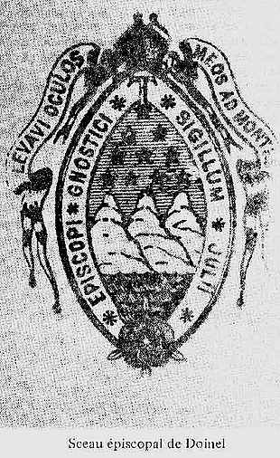 Episcopal Seal of Gnostic Church of Jules Doinel (1842–1902).